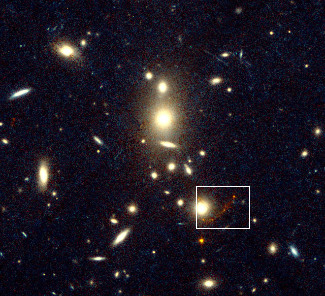 CL1358+62, the farthest object in the observable universe. Obtained from